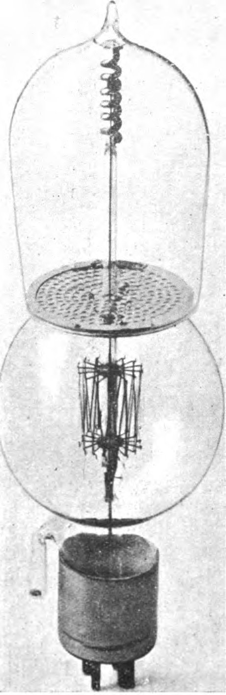 A "Lieben-Reisz tube" (or "Lieben-Reisz-Strauss relay"), an early experimental amplifying vacuum tube developed by Austrian engineers Robert von Lieben and Eugen Reisz beginning in 1906 and a competitor to the Audion (triode) invented by Lee De Forest for the earliest amplifying vacuum tube. About 16 in (41 cm) tall and 4 in (10 cm) wide. It consisted of a partially evacuated glass envelope containing 3 electrodes: a heated platinum filament wire (bottom) coated with barium or calcium oxides which released electrons which were attracted to the positively charged anode wire (top), passing through a "grid" made of a perforated metal plate (center). As in the Audion, a small voltage on the grid could control a larger anode current, so the tube could amplify. The inventors claimed a voltage gain of 33. The tube had a small amount of mercury vapor in it, released by the pellet of mercury amalgam in the small U shaped tube on the lower left side, to reduce the high anode voltage of 220 V required when the tube was evacuated. These were used by Alexander Meissner in 1913 to build some of the first electronic oscillator circuits, which he used the same year in a historic radiotelephone experiment, transmitting 500 kHz AM voice signals 23 miles (36 km) from Berlin to Nauen, Germany. Since the tube was patented a few months before the Audion, Lieben sued De Forest for patent infringement, but ultimately lost due to the deep pockets backing the Audion. (Information from source text)